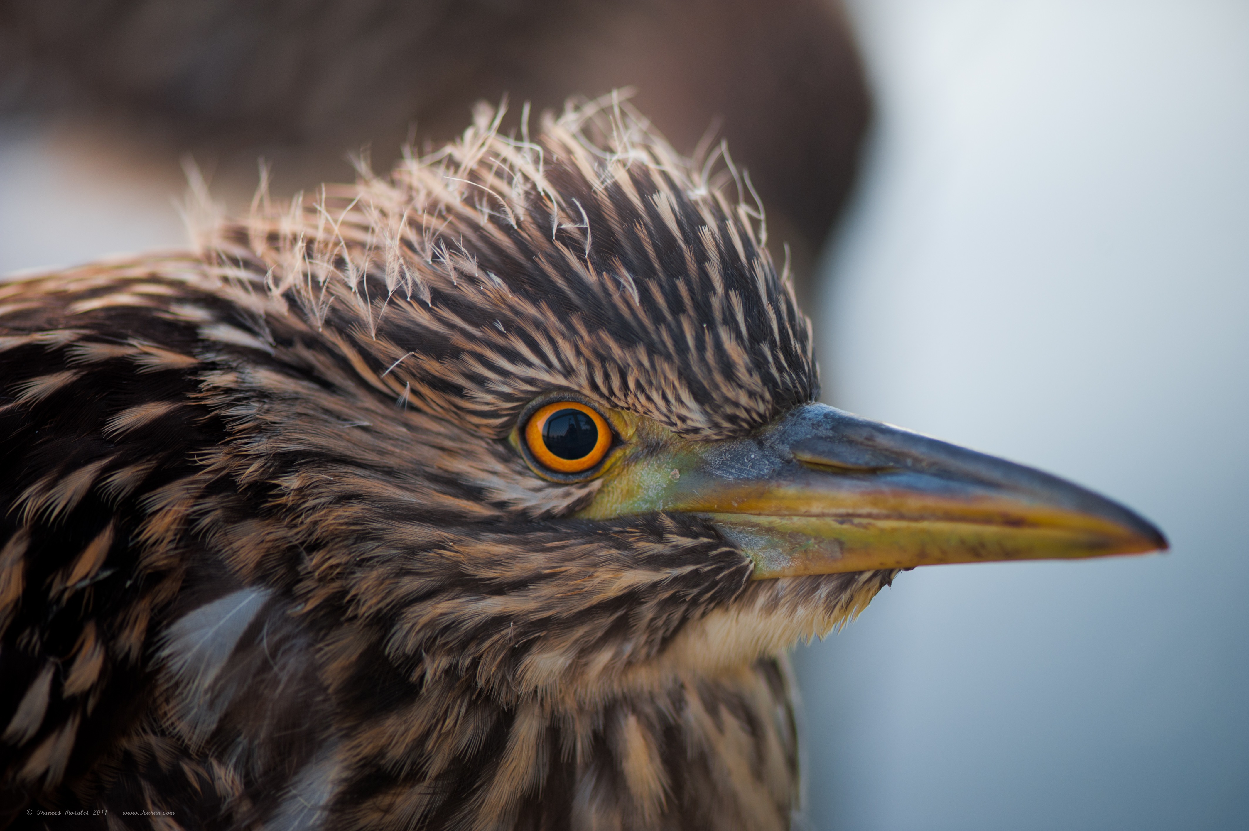 Juvenile Black-Crowned Night Heron